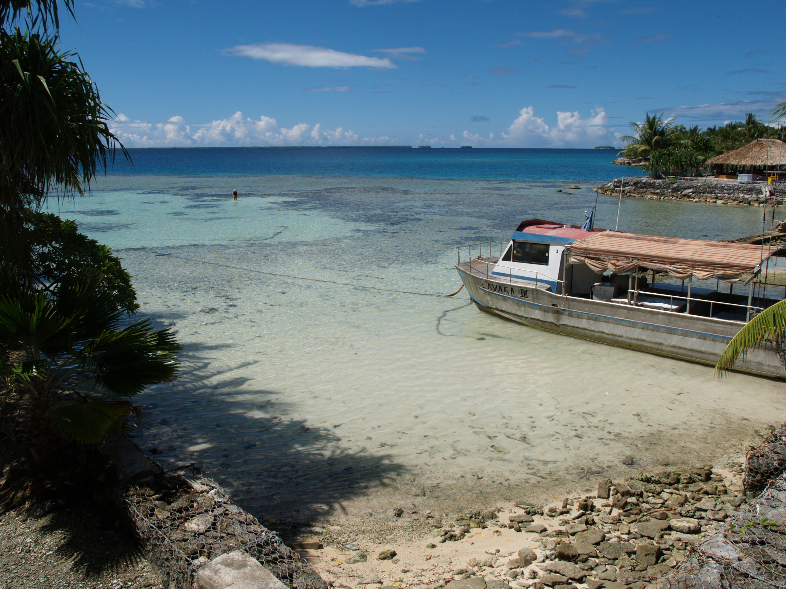 Nukunonu Lagoon taken from the balcony of the Luana Liki Hotel.